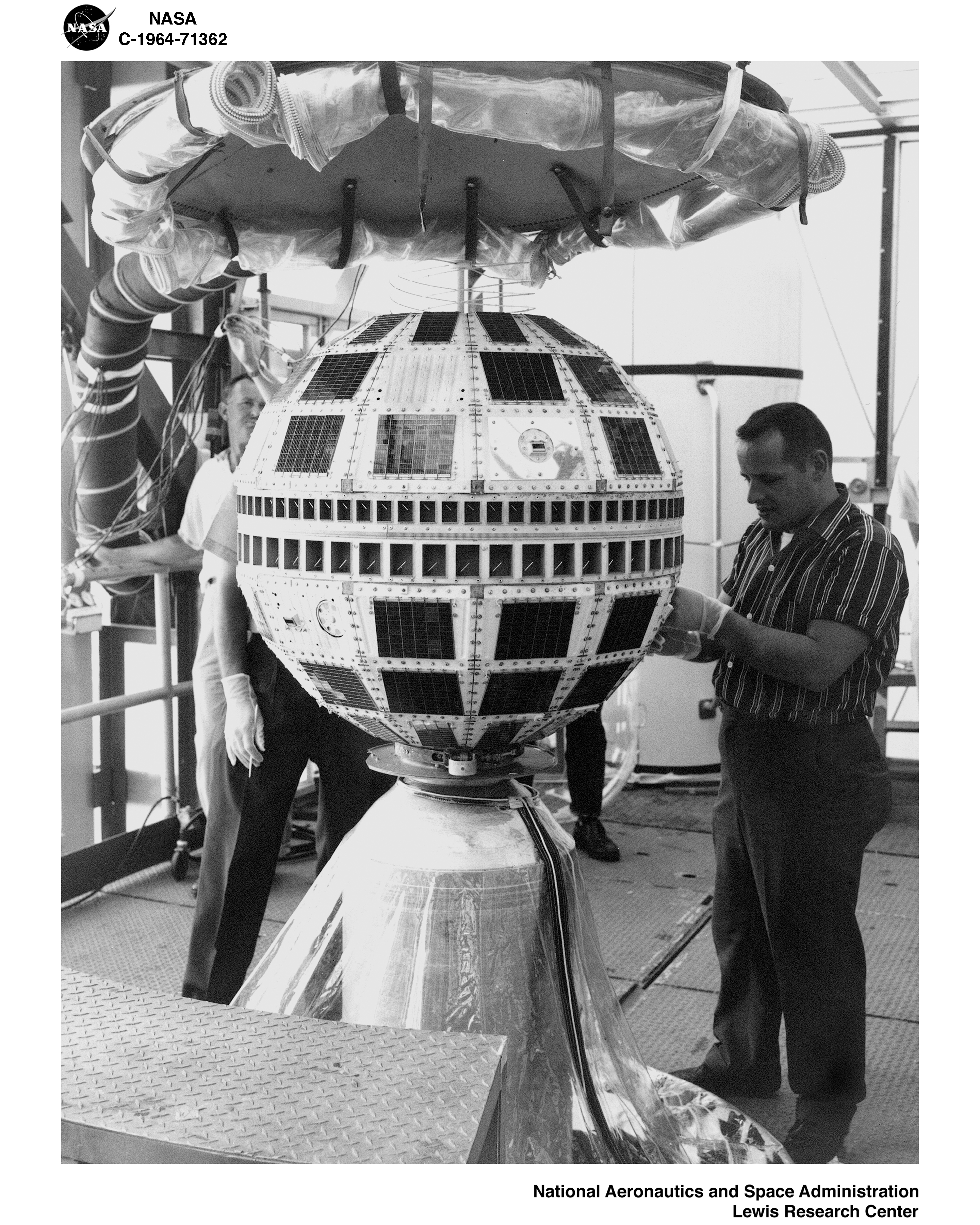 Telstar II Satellite for use at the parade of progress show at the public hall, Cleveland, Ohio.